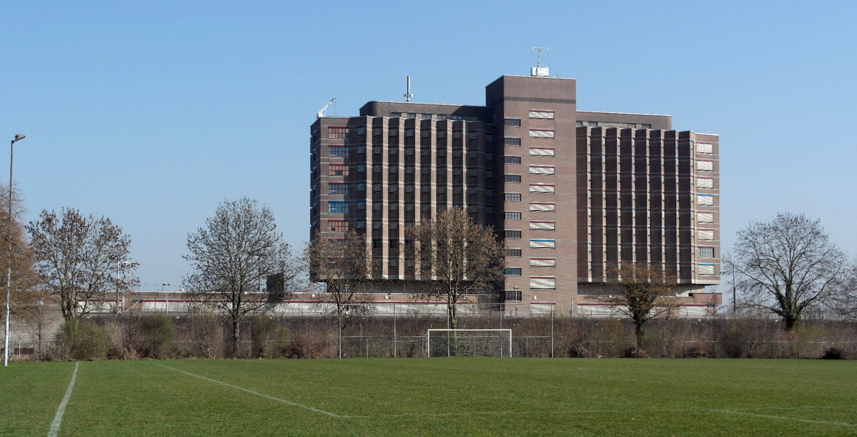 Maastricht, the Netherlands. View of former prison building in the neighbourhood of Limmel in the northeast of Maastricht.